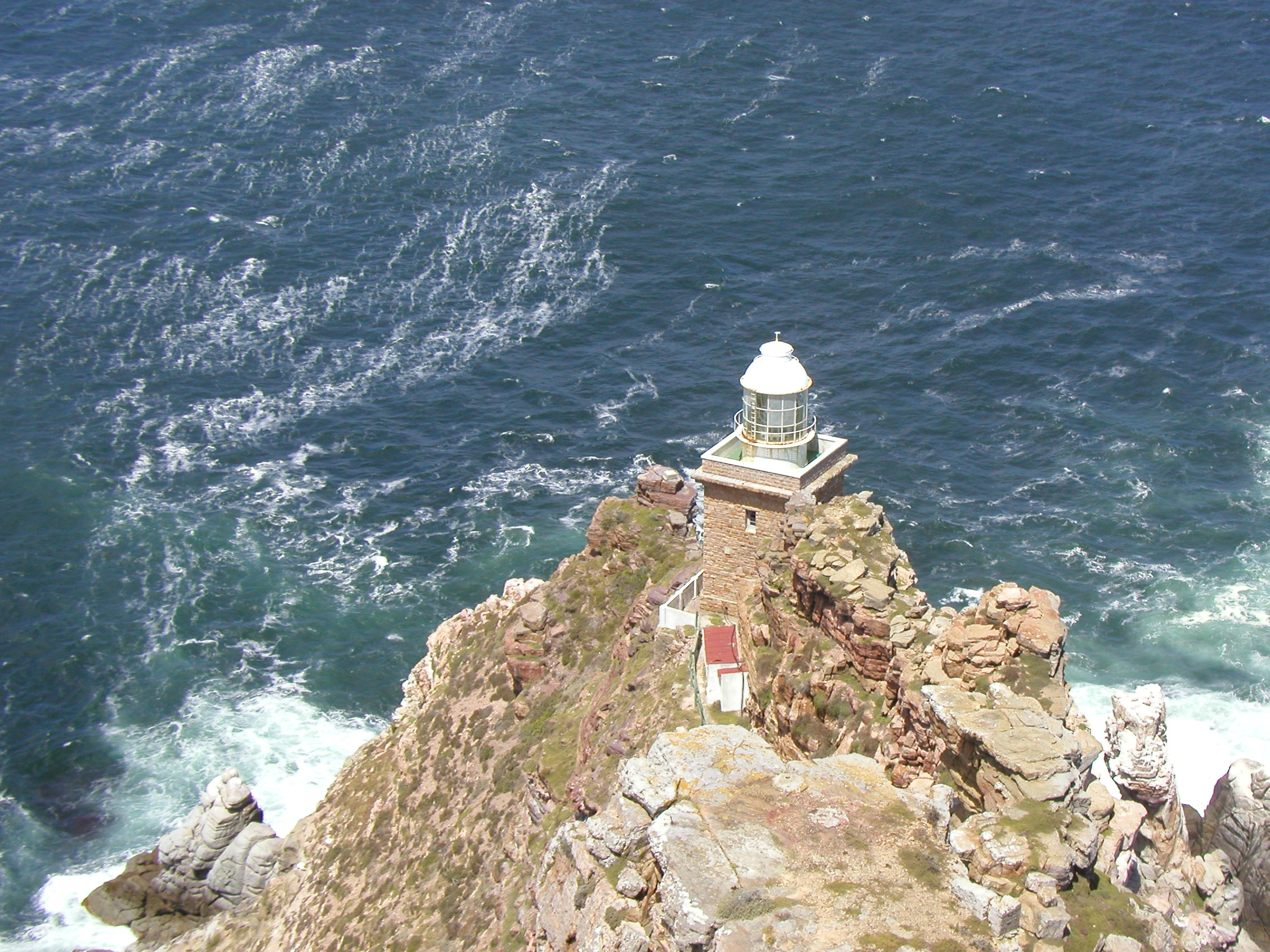 Lighthouse at Cape Of Good Hope